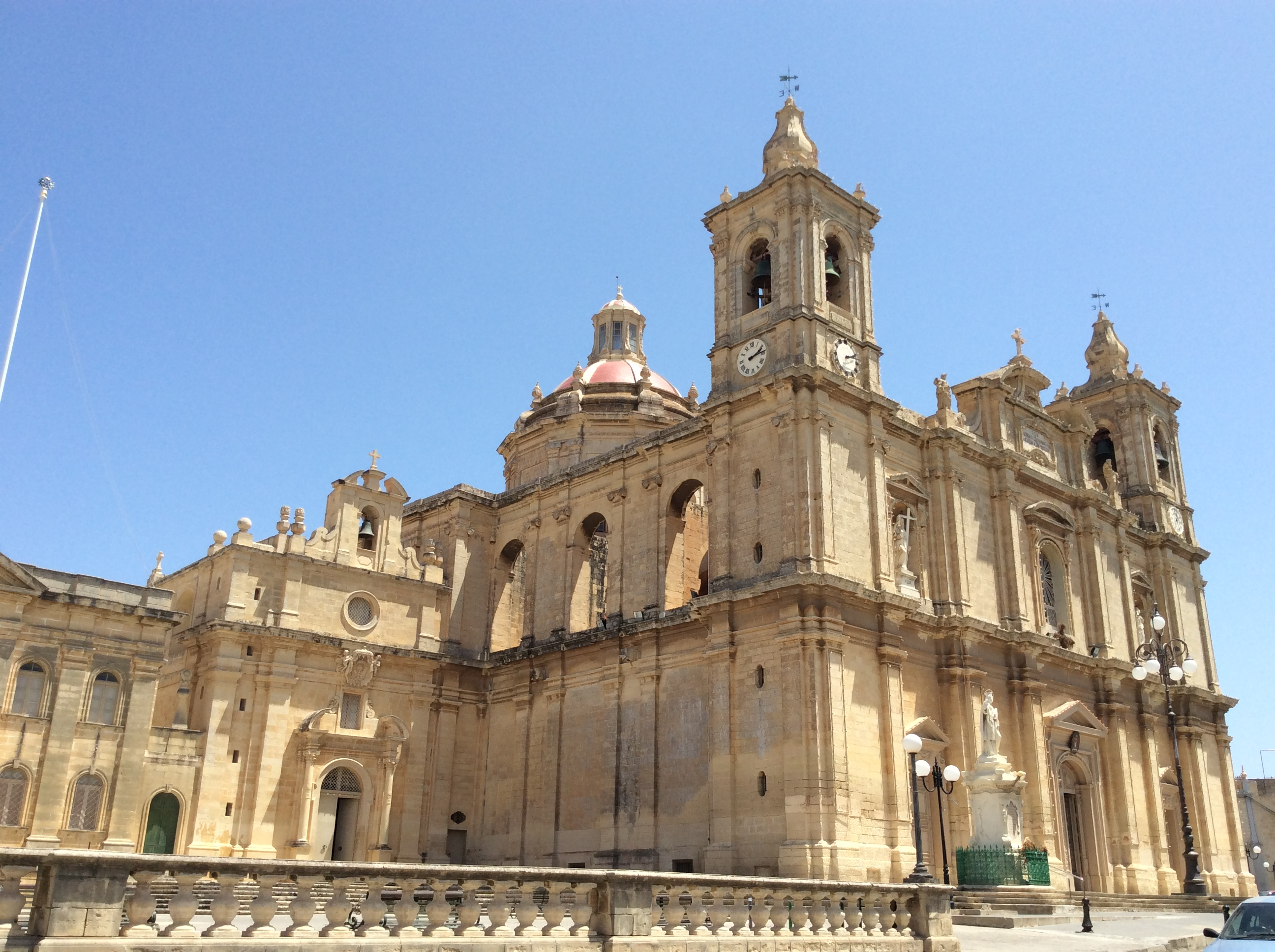 Zejtun cultural heritage